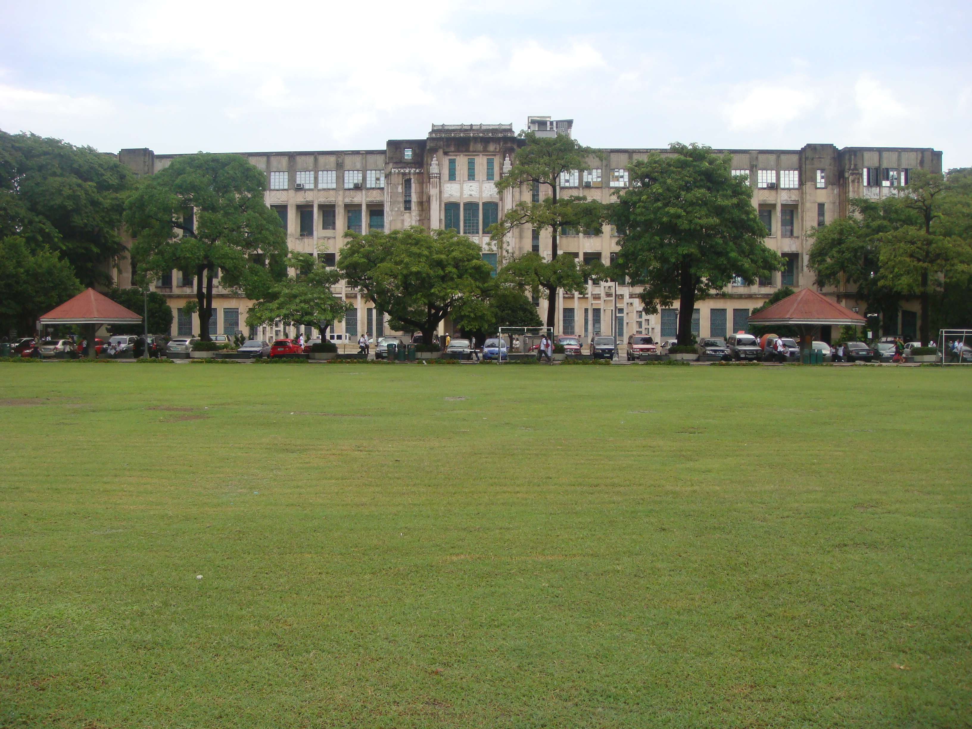 University of Santo Tomas, main building